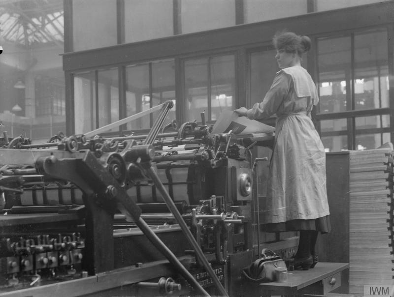 The Employment of Women in Britain, 1914-1918 A female worker operating a laying machine in the printing works of WH Smith & Sons, Stamford Street, Southwark.